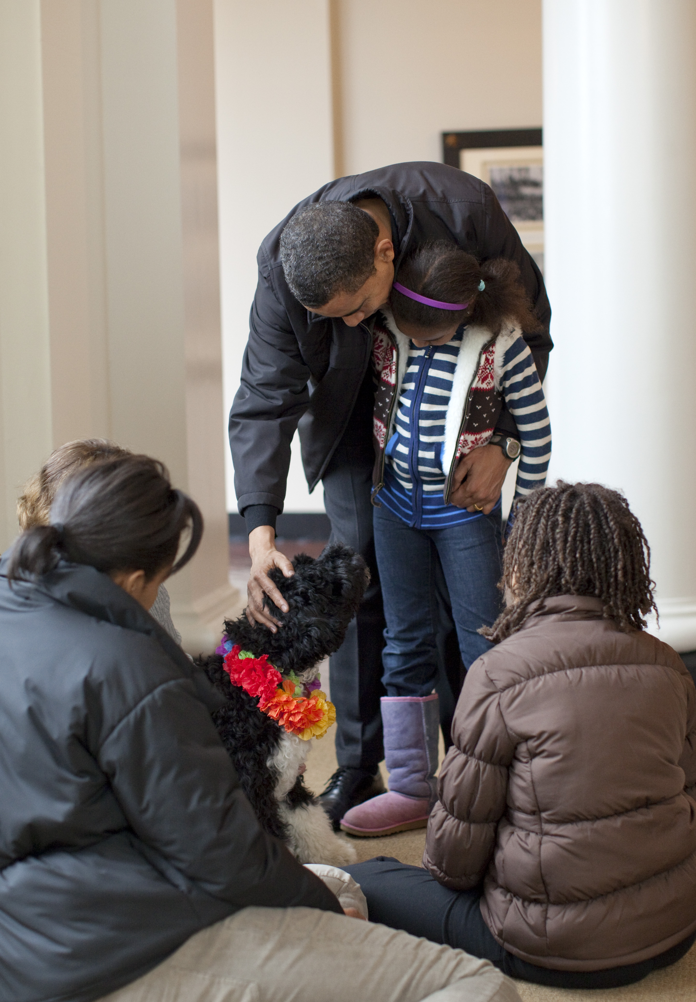 The Obamas welcome Bo, a six-month old Portuguese water dog and a gift from Senator and Mrs. Kennedy to Sasha and Malia, recently at the White House.